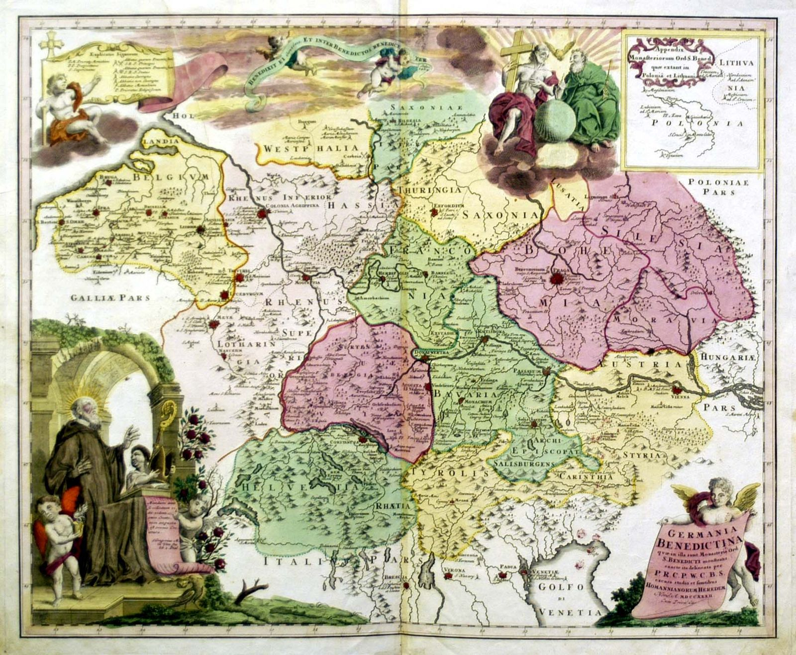 Map showing the location of Benedictine abbeys inside the Holy Roman Empire and Switzerland. Homann Heirs, 1732